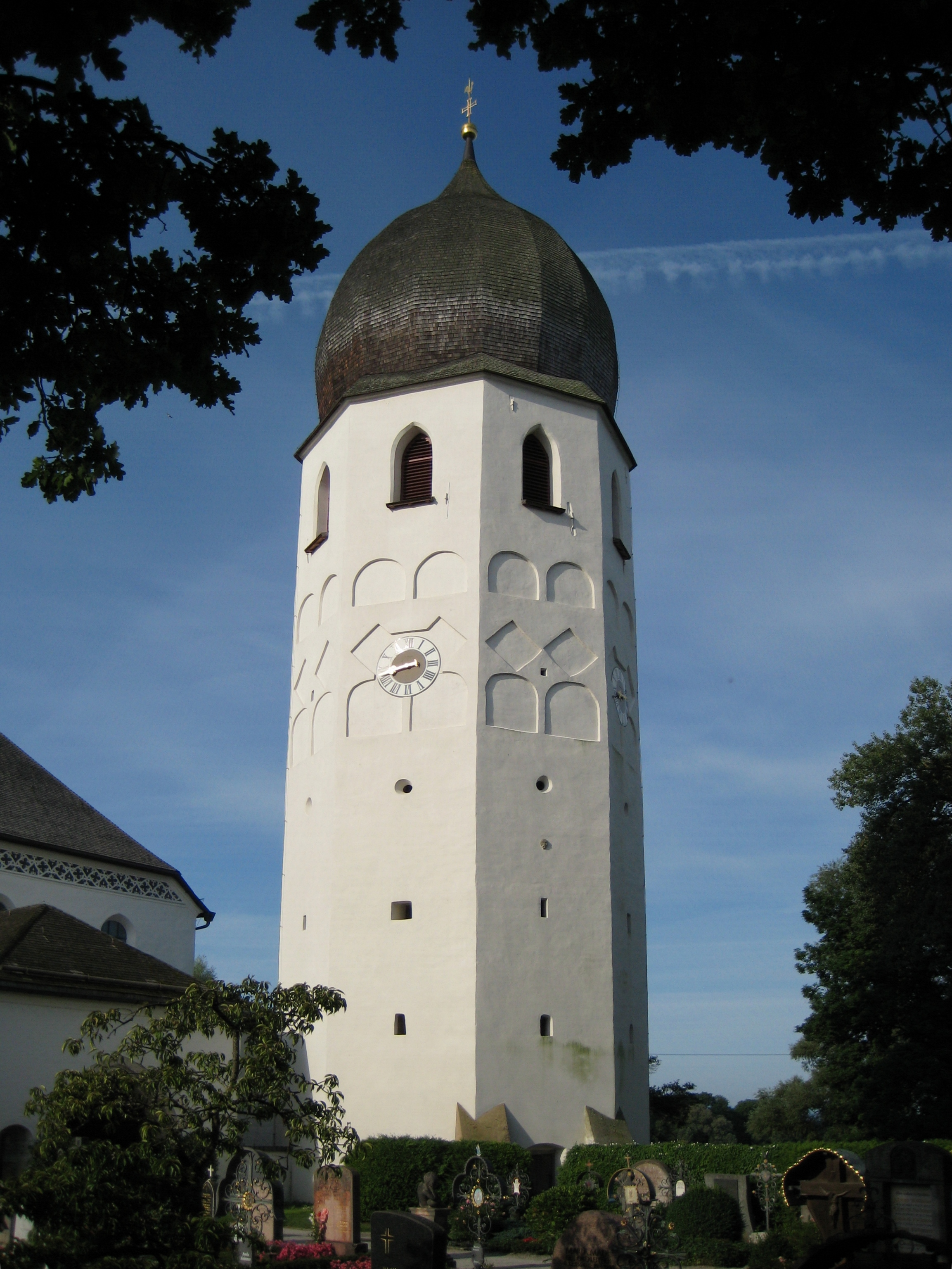 Chiemsee, Fraueninsel